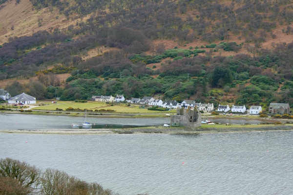 Lochranza village and castle, Isle of Arran, Scotland. Taken by Mark Phillips.